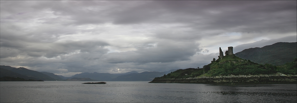 Great Britain, Scotland, Kyleakin